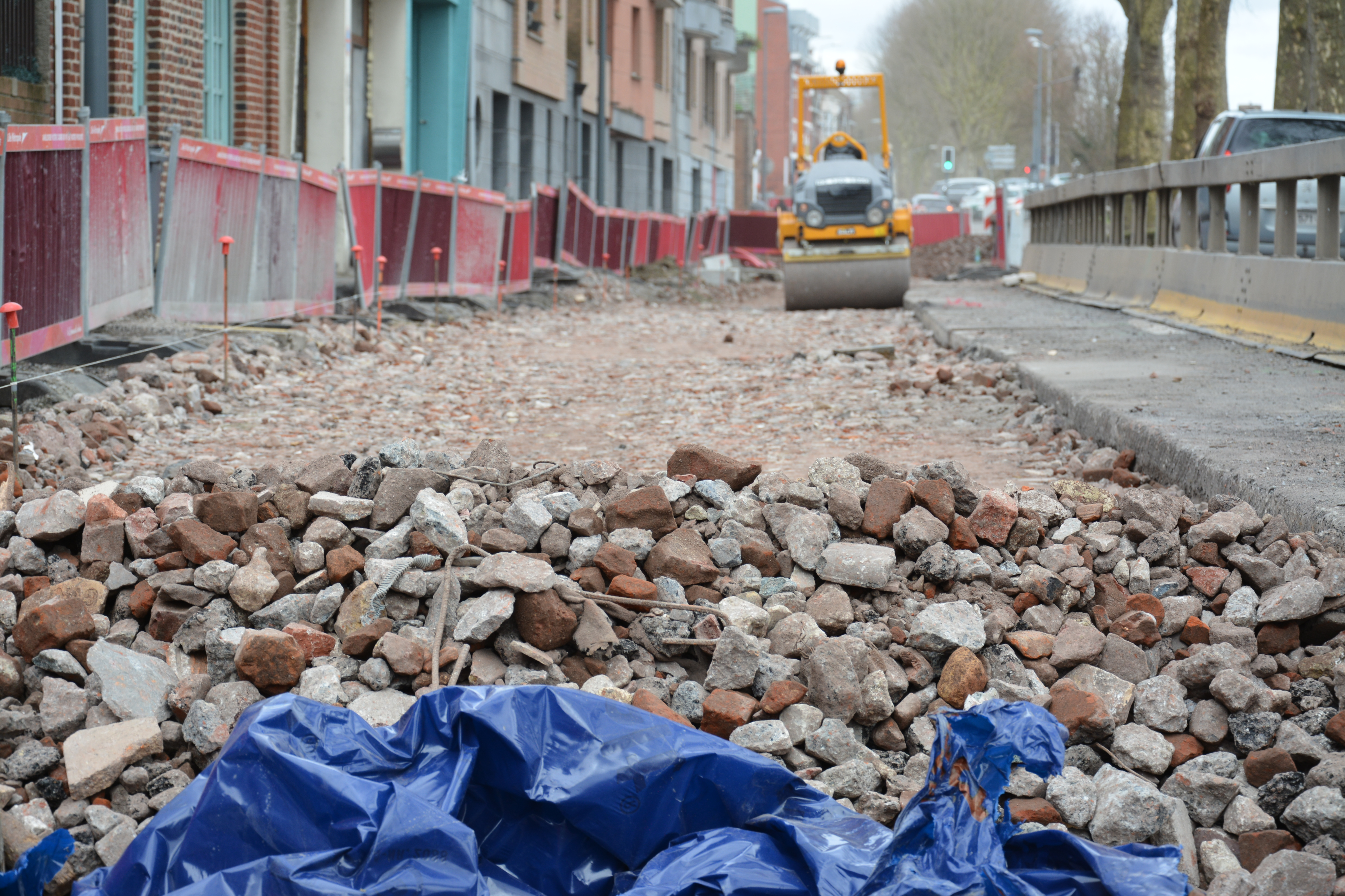 Recycling of rubble on road undercoat in Lambersart (Avenue de Soubise) in northern France (Région Hauts-de-France) 2016, along a branch of the channeled Deûle river .